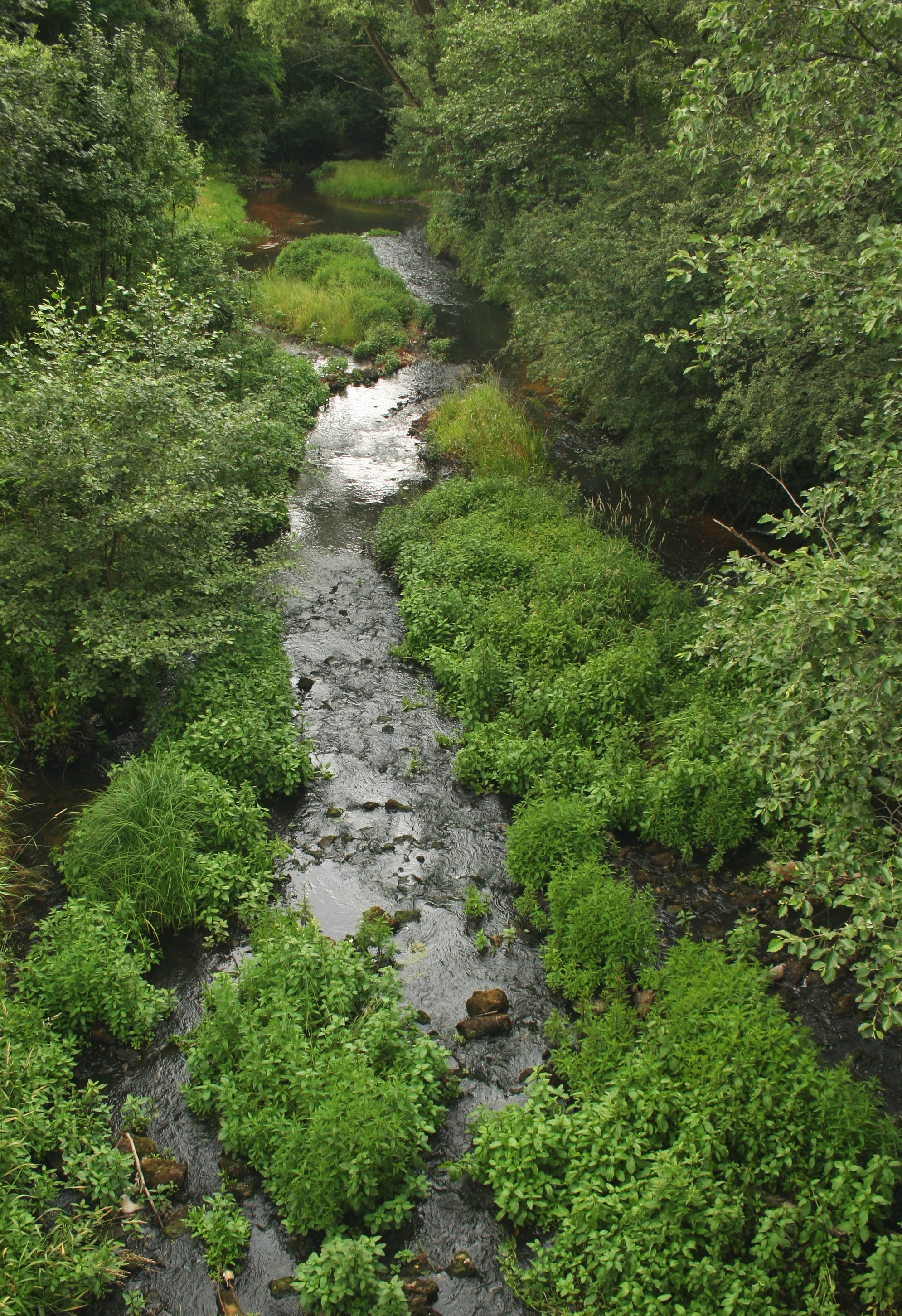 Mała Panew river in Miotek (Poland)